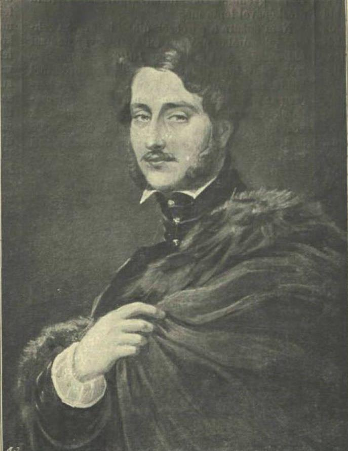 György Károlyi